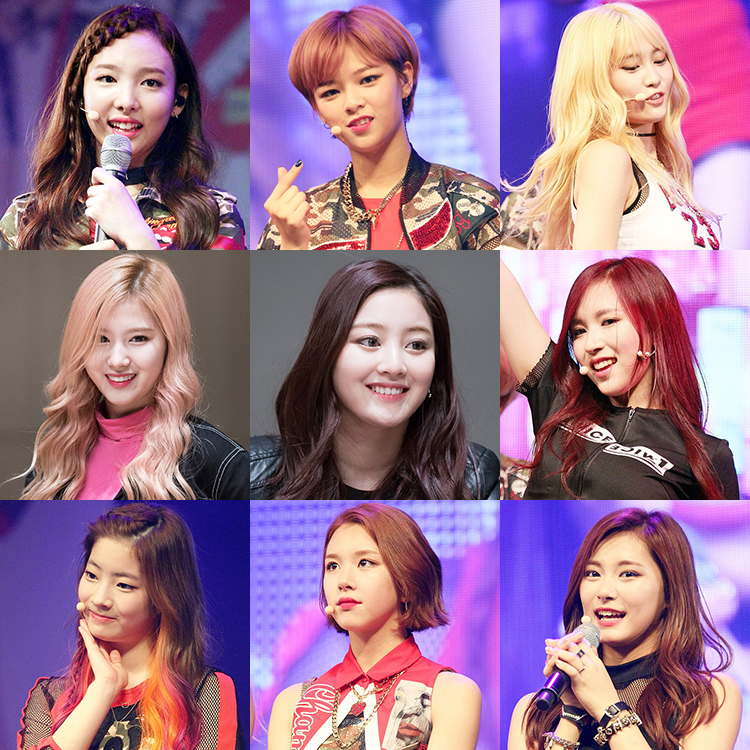 Twice Members : Jeongyeon, Momo. Sana, Mina, Dahyun, Tzuyu.